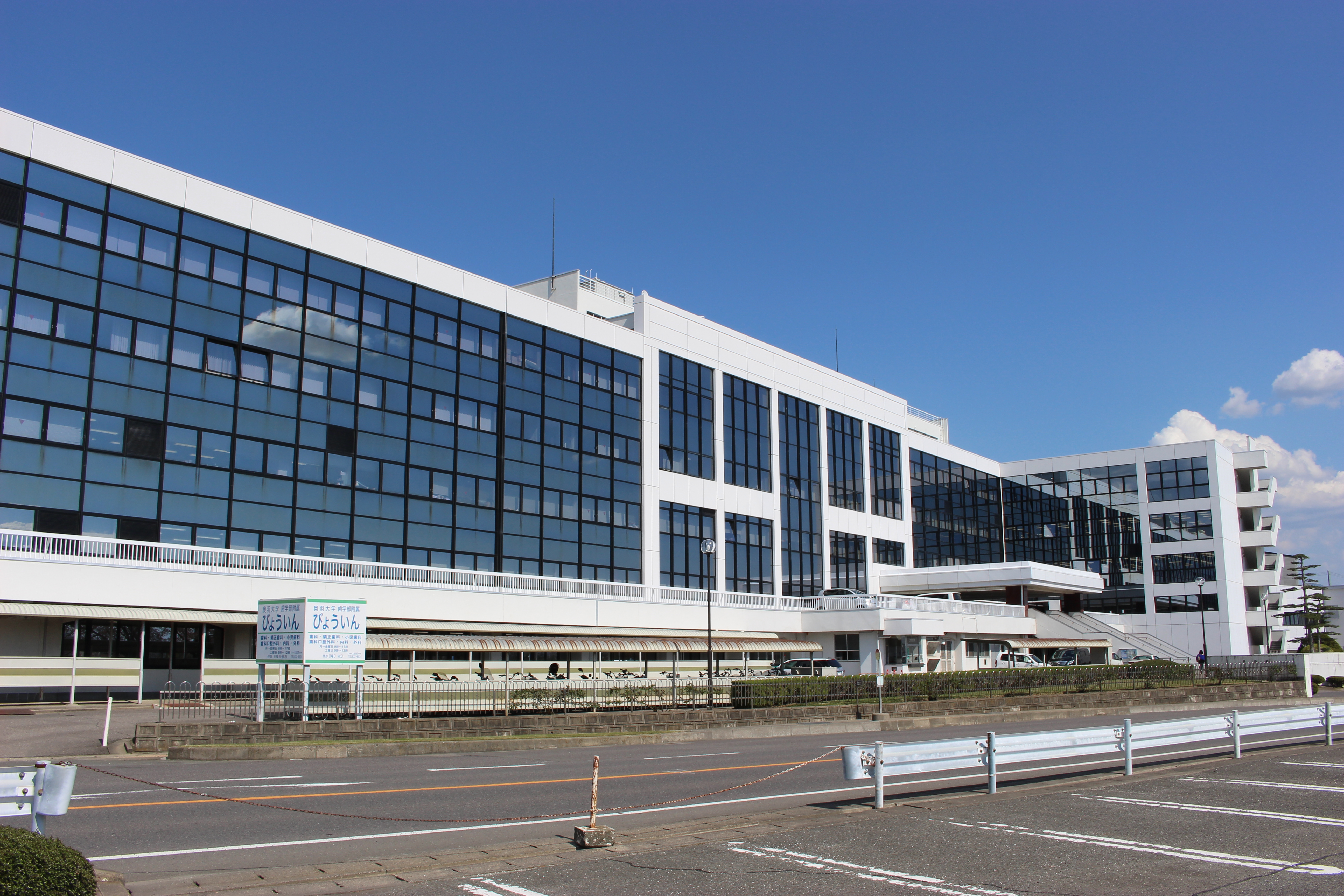 Ohu University Hospital in Koriyama City, Fukushima Prefecture, Japan